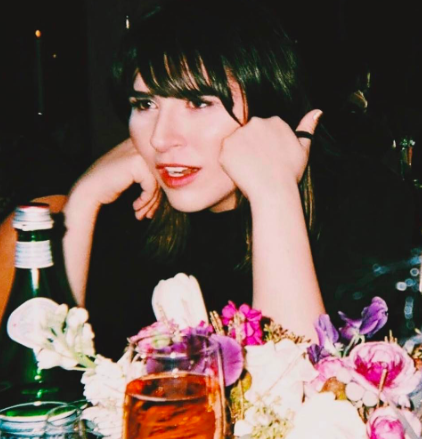 Songwriter Emily Warren at a New Years Eve dinner party, 2016